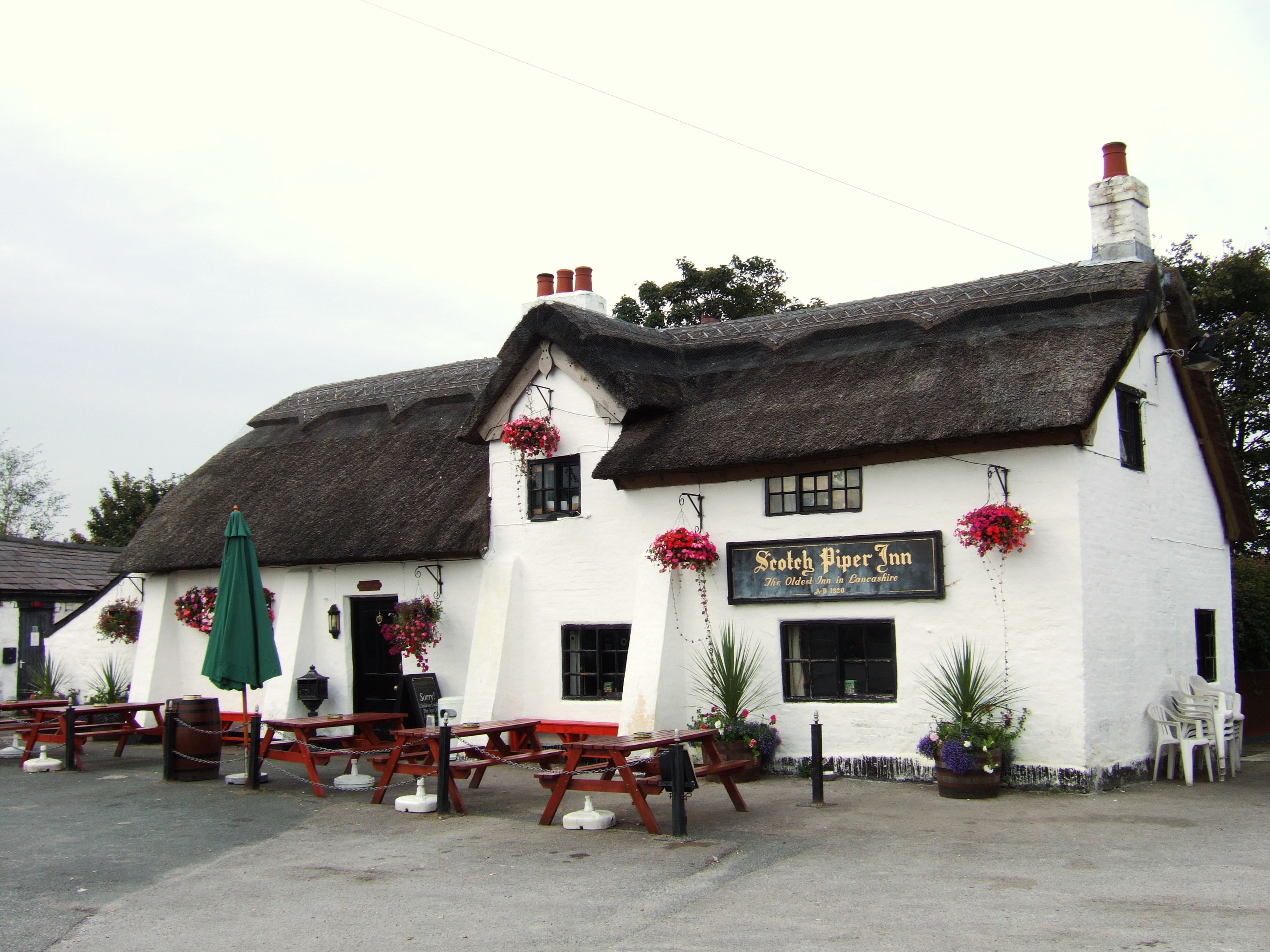 The Scotch Piper Inn, located on the A5147 in Lydiate, Merseyside, England. Established in 1320, it is reputed to be the oldest Inn in the historic county of Lancashire.